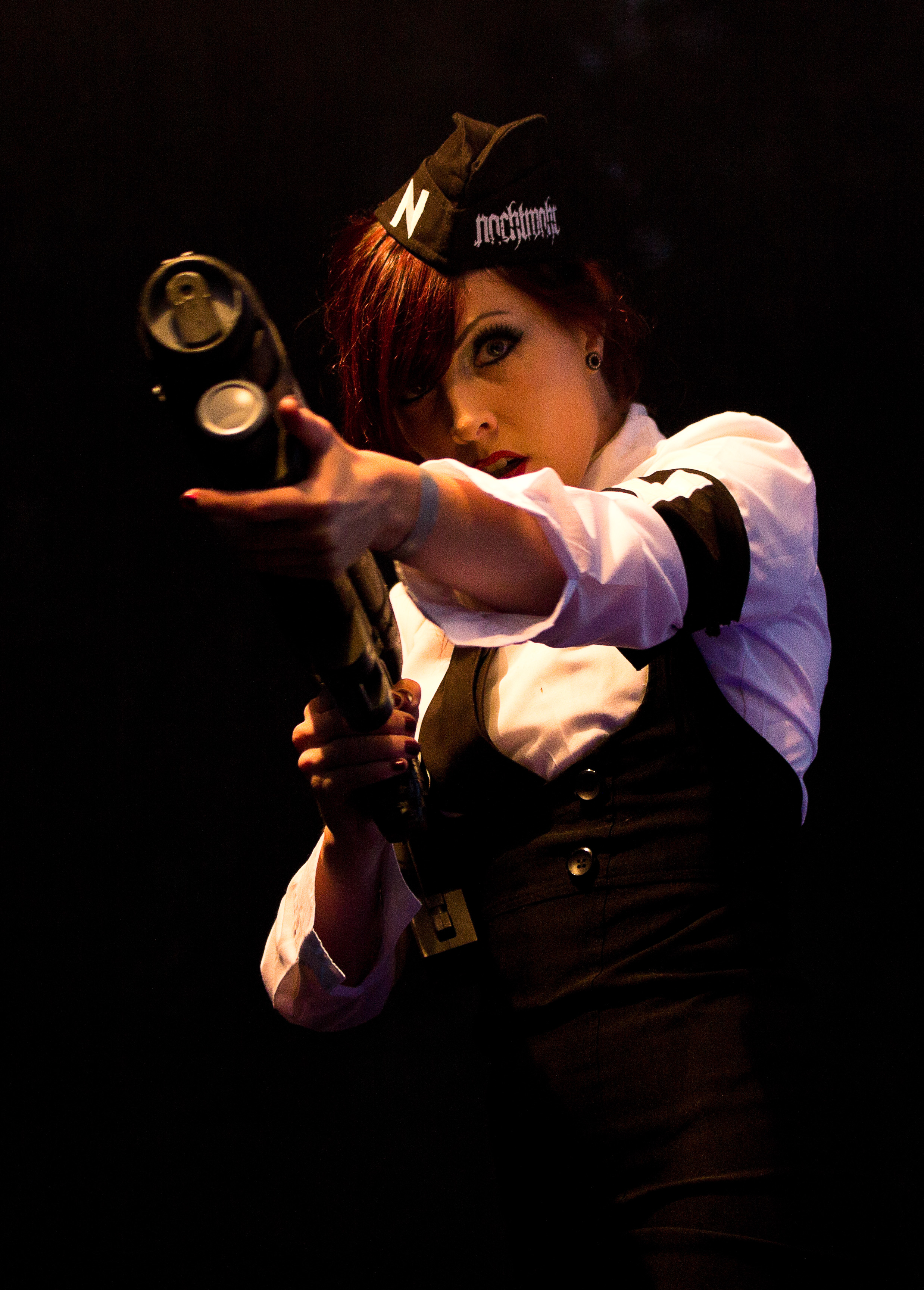 The Austrian aggrotech band Nachtmahr at the Nocturnal Culture Night 9 2014 in Deutzen/Germany